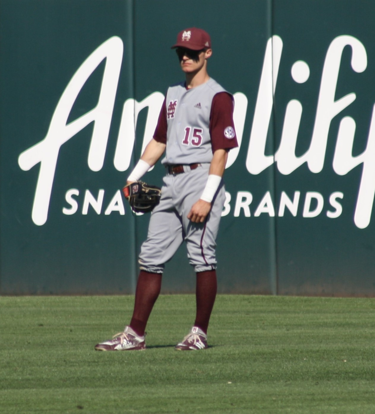 Jake Mangum plays centerfield for the Mississippi State Bulldogs against the Arkansas Razorbacks at Baum Stadium